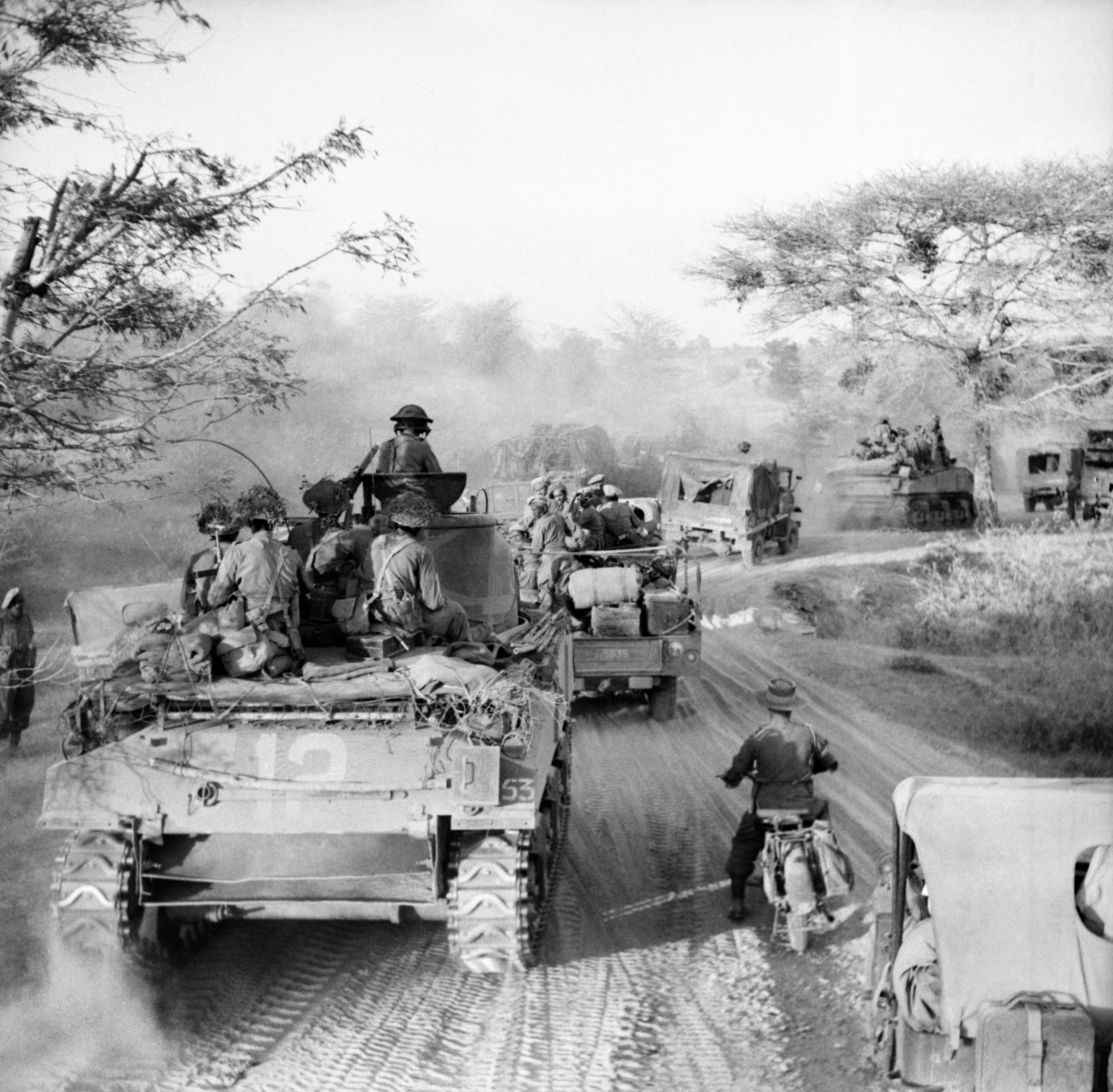 The original IWM caption reads, "Sherman tanks and trucks of 62nd Motorised Brigade advancing on the road between Nyaungyu on the Irrawaddy bridgehead and Meiktila, March 1945." This however is slightly incorrect, possibly as the result of deliberate wartime disinformation. No 62nd Brigade was involved at Nyaungu or Meiktila (being part of 19th Division, engaged at Mandalay); the 63rd Brigade, part of 17th Division was part of the advance on Meiktila.